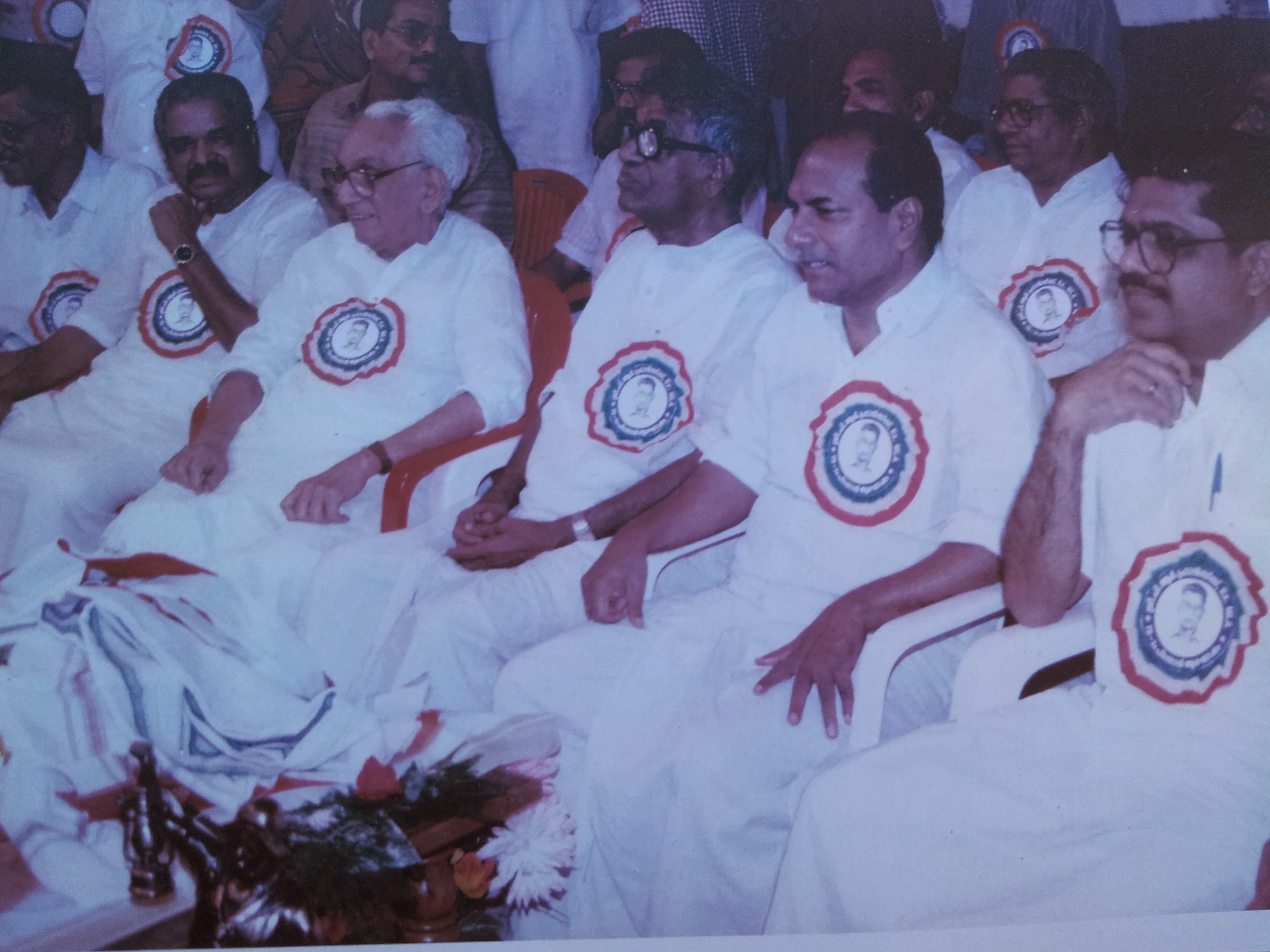 Inauguration of PR Francis memorial Congress party office at Ollur